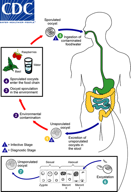 Picture showing the lifecycle.